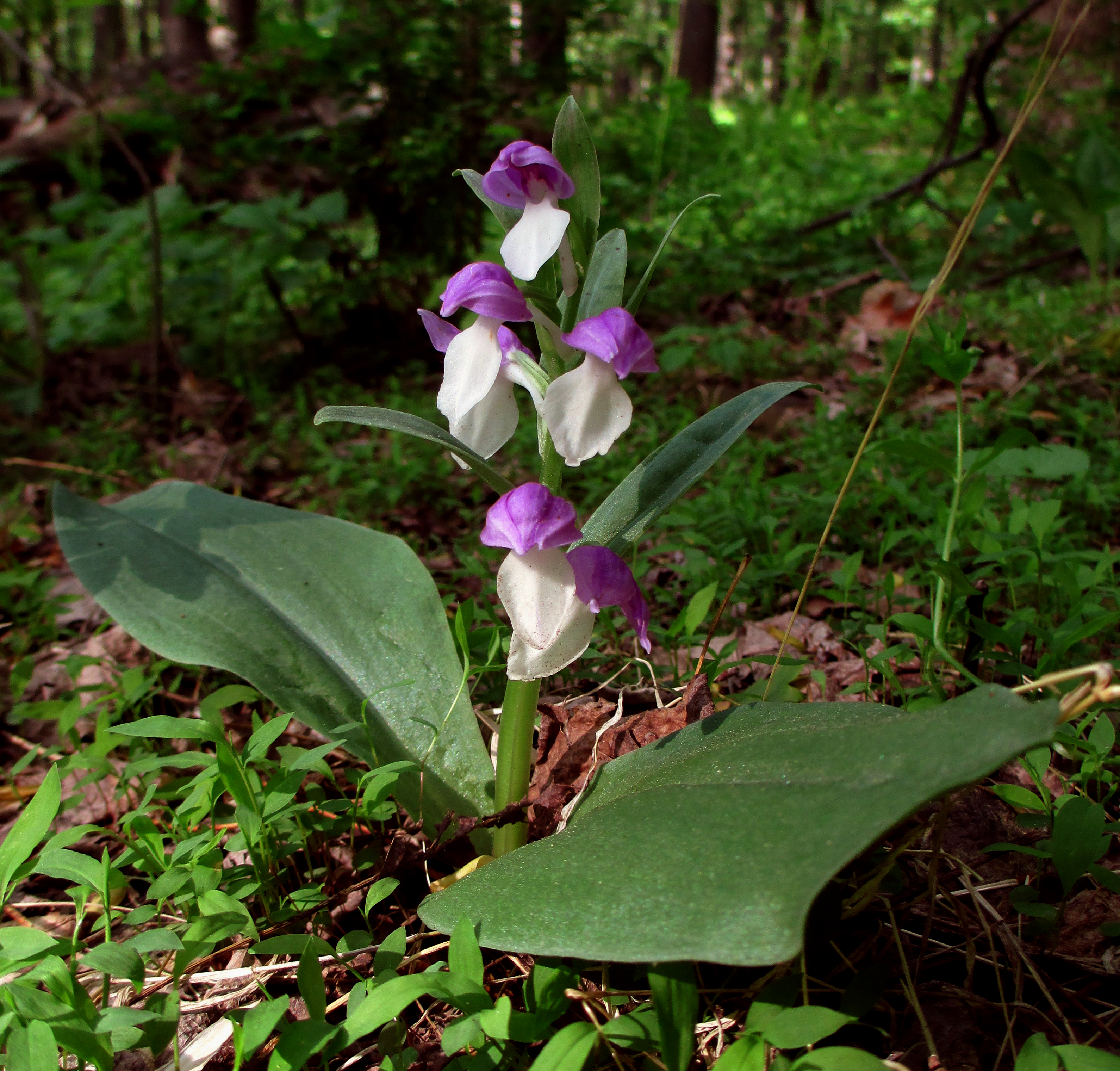 Galearis spectabilis, Warren County, Virginia, May 2013.